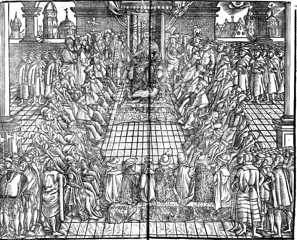 Polish Senate second half of XVI century